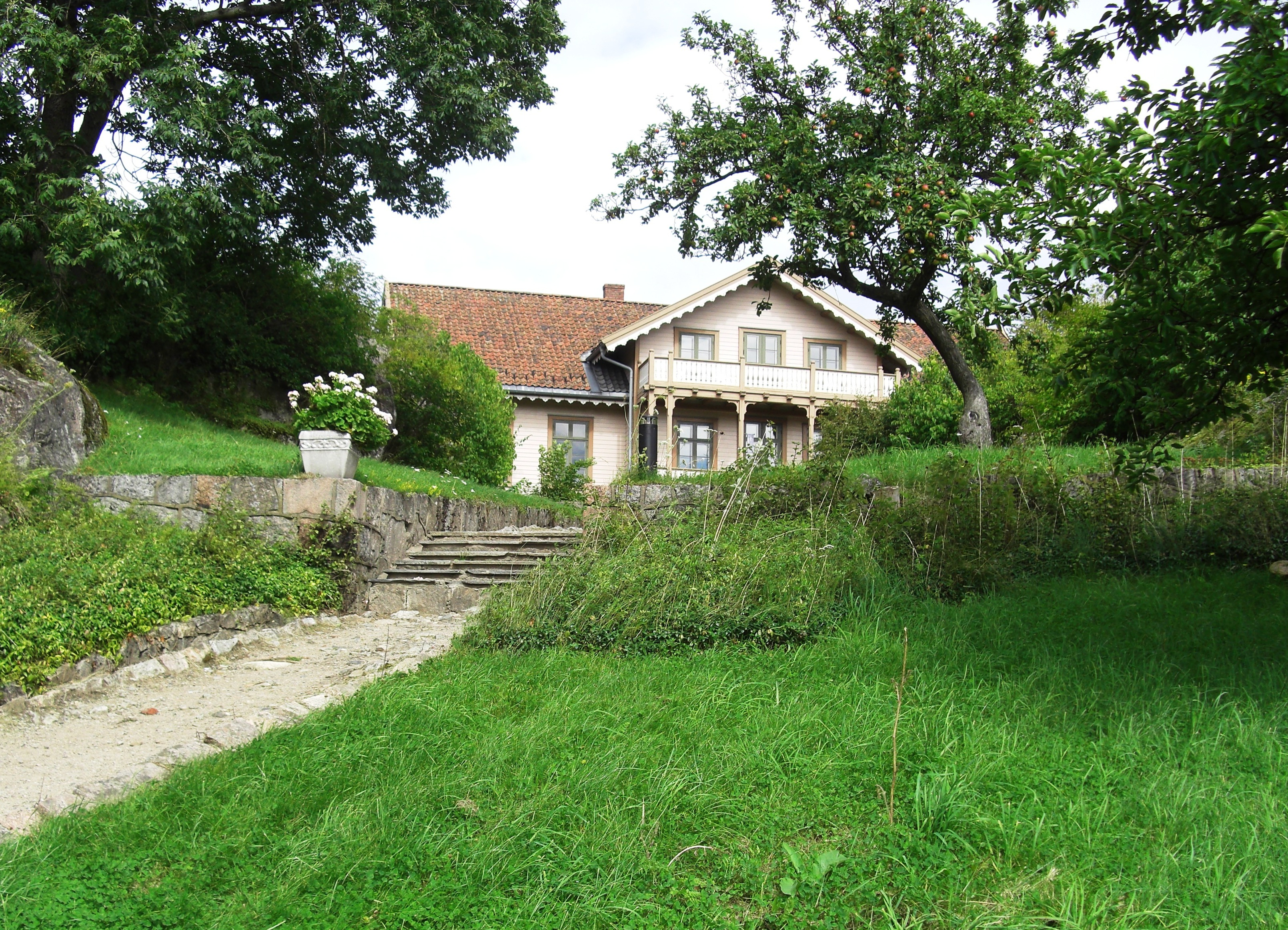 The Fortress Commander's quarters